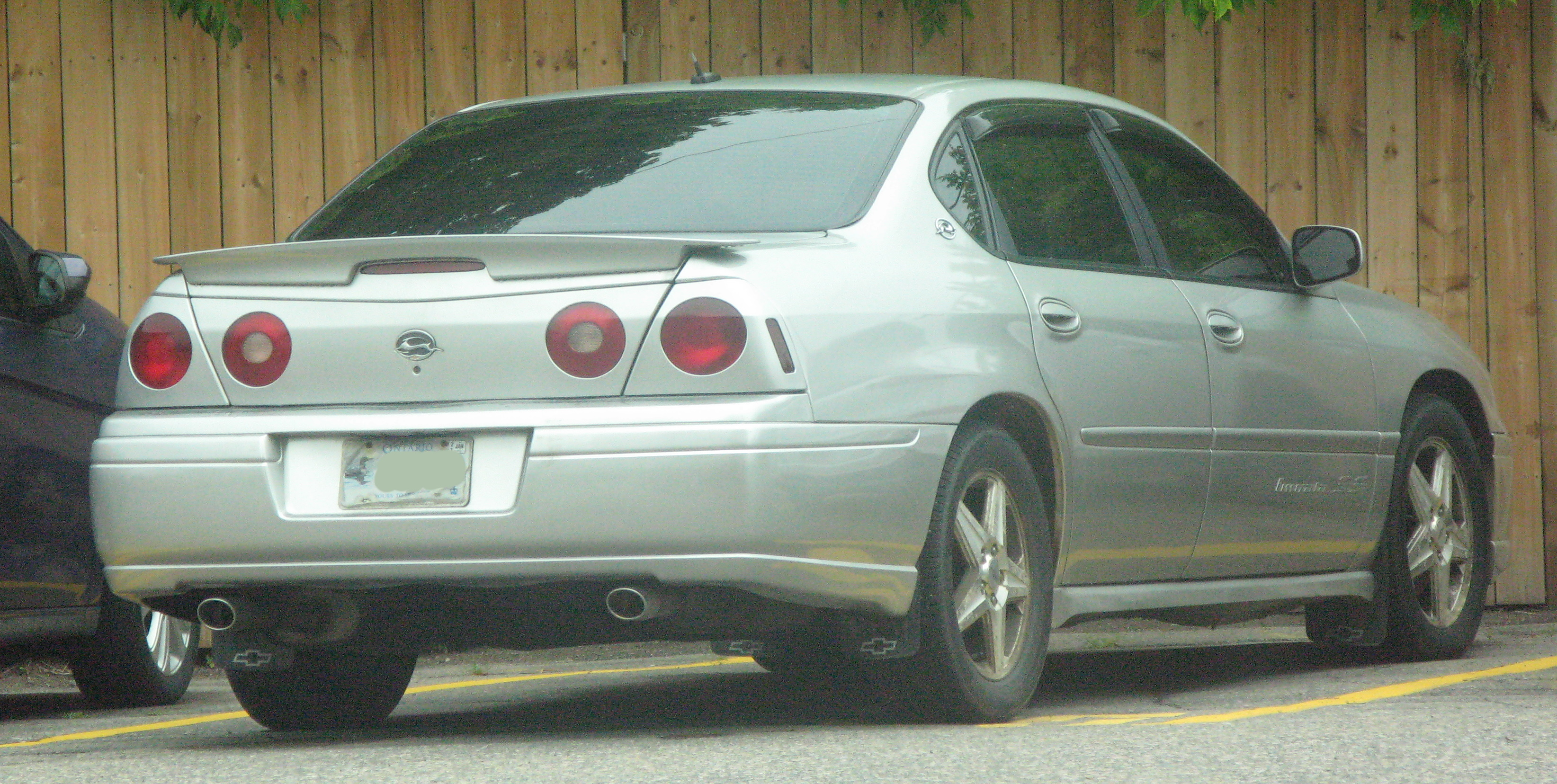 2005 Chevrolet Impala SS photographed in Sault Ste. Marie, Ontario, Canada